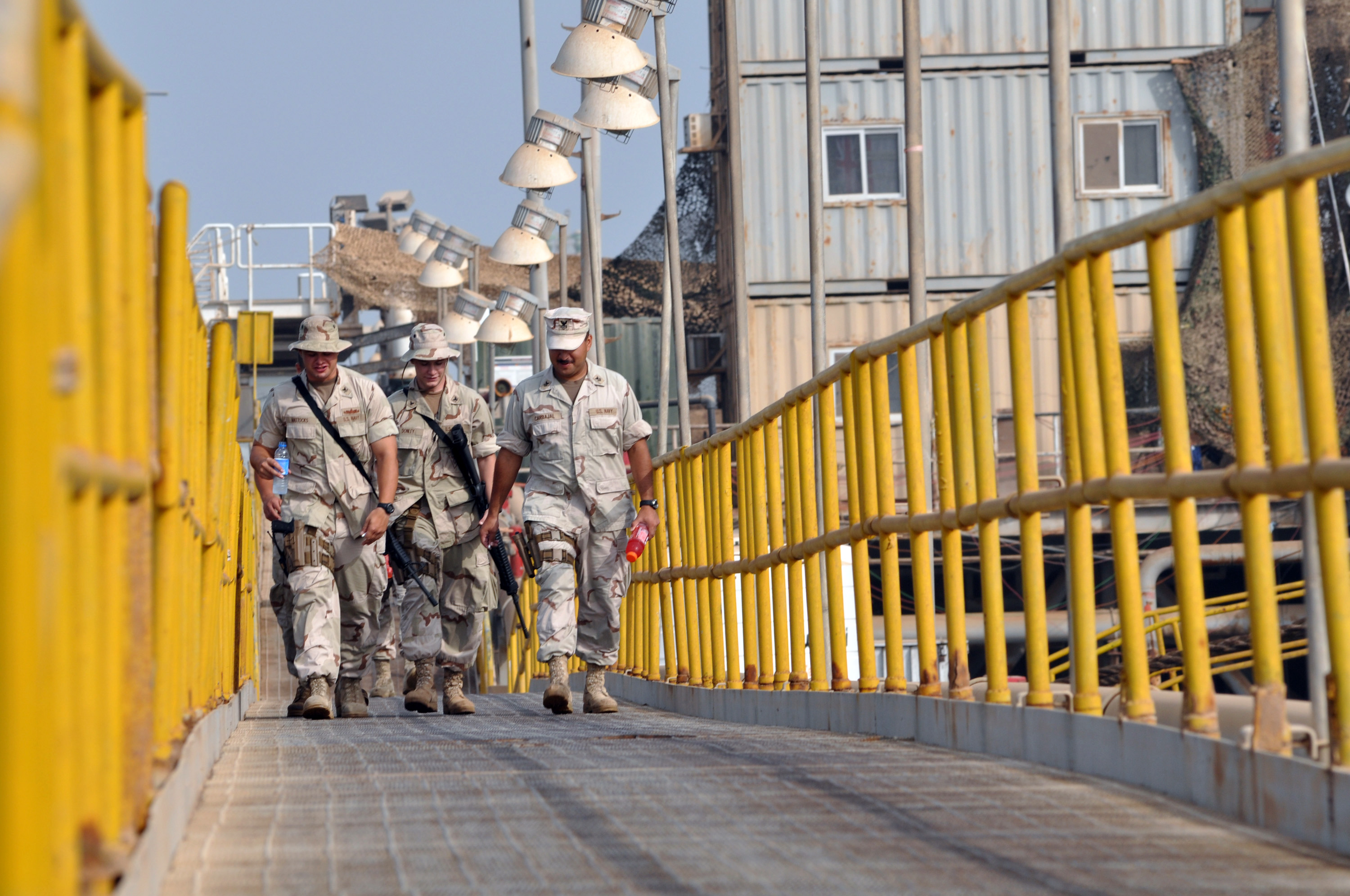 PERSIAN GULF (Aug. 18, 2009) A group of Sailors transit a catwalk on the Al Basrah Oil Terminal (ABOT). ABOT is an Iraqi run oil facility in which U.S. maritime security forces have been invited to help defend Iraq's oil distribution. (U.S. Navy photo by Mass Communication Specialist 2nd Class Joseph M. Buliavac/Released)